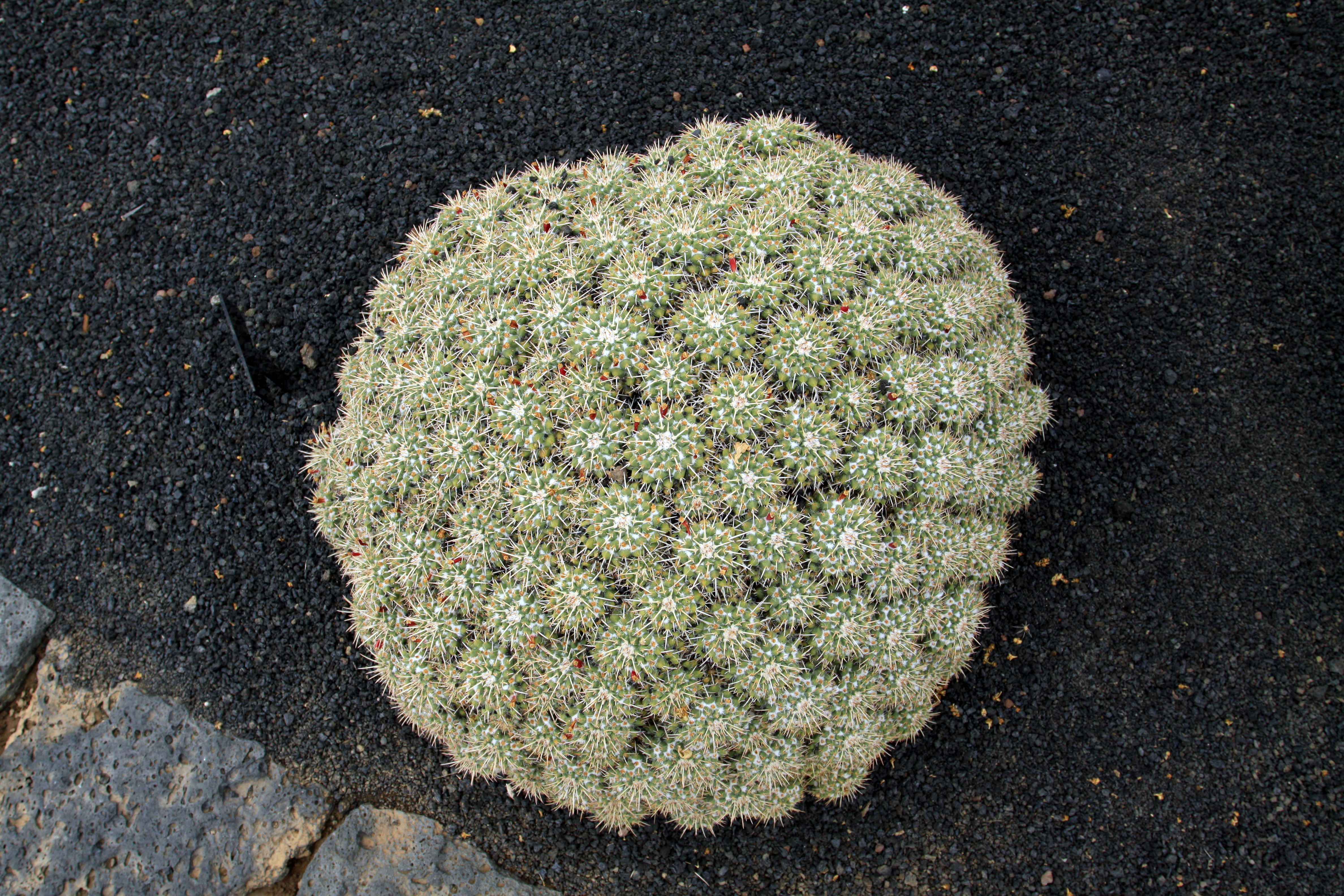 Mammillaria compressa in the Jardin de Cactus in Guatiza on Lanzarote, The Canary Islands, Spain